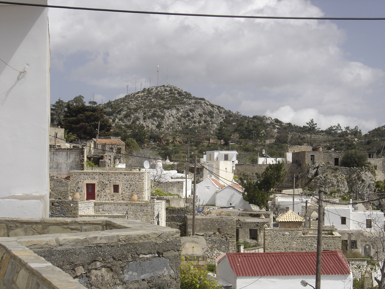 View from Palia Anatoli, Lasithi prefecture.